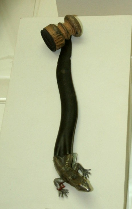 Stamp and knife for cutting paper of Yevsey Gindes